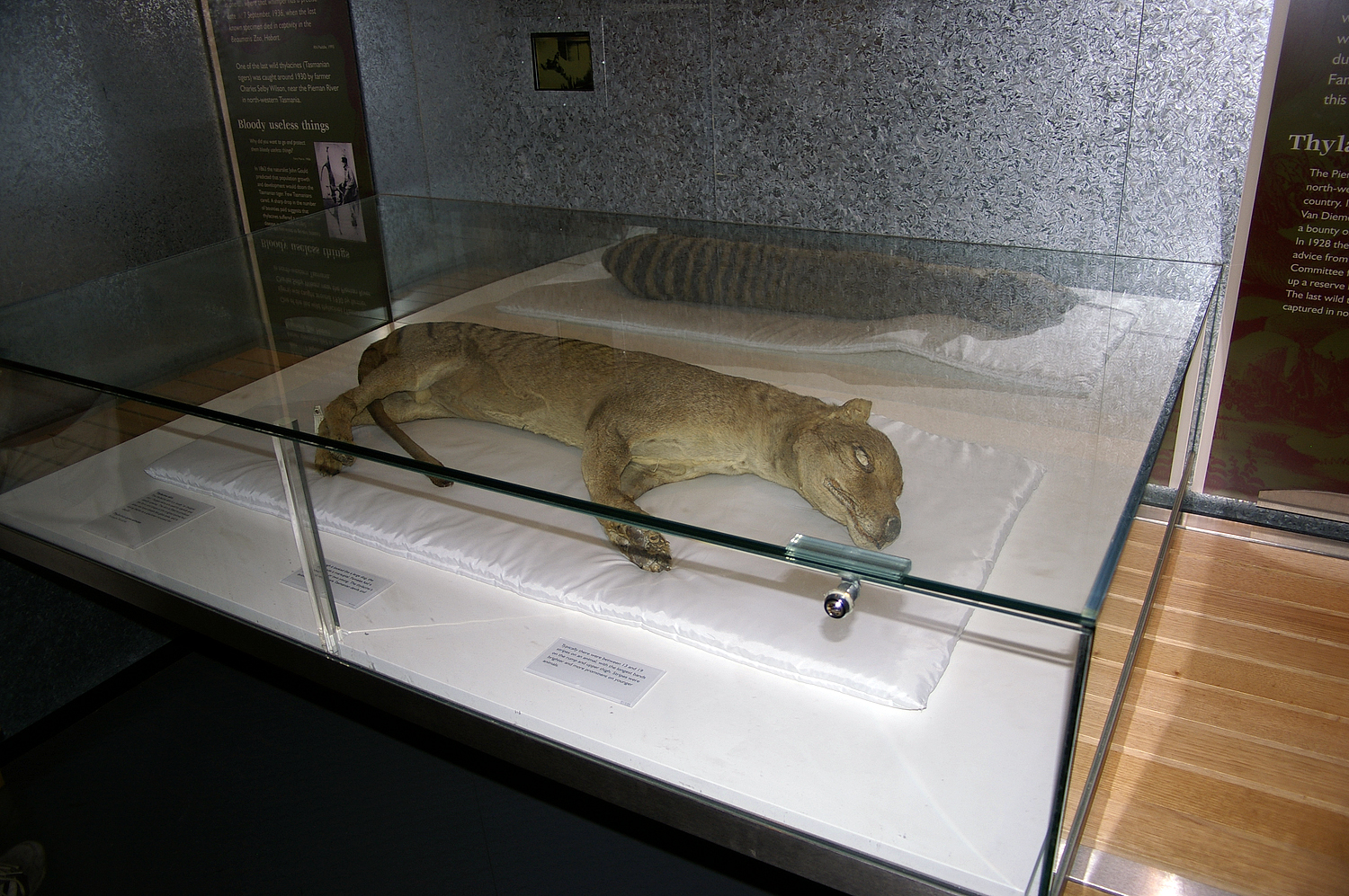 Thylacinus cynocephalus at the National Museum of Australia in Canberra, Australian Capital Territory.